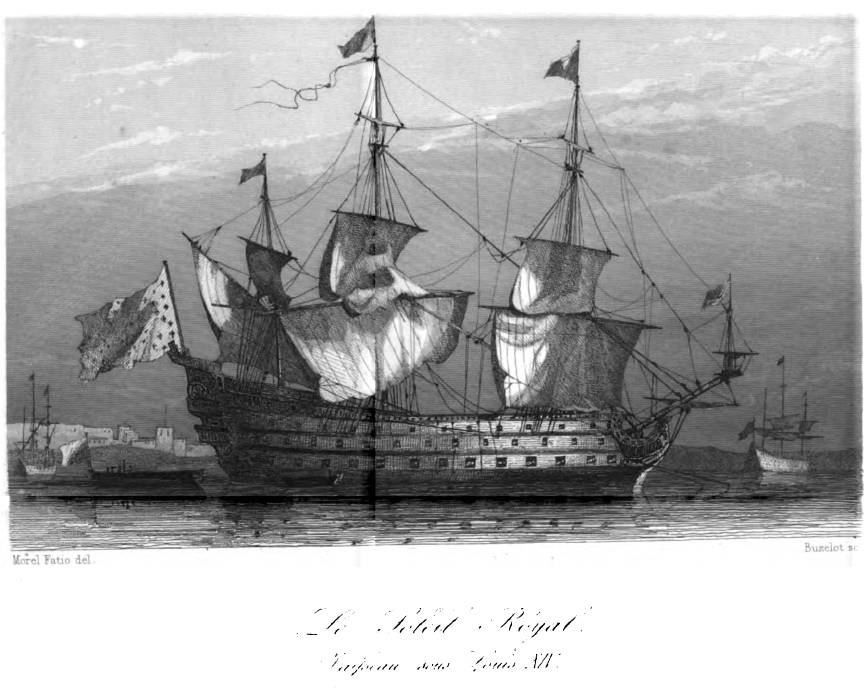 Illustration from La Marine, by Pacini.